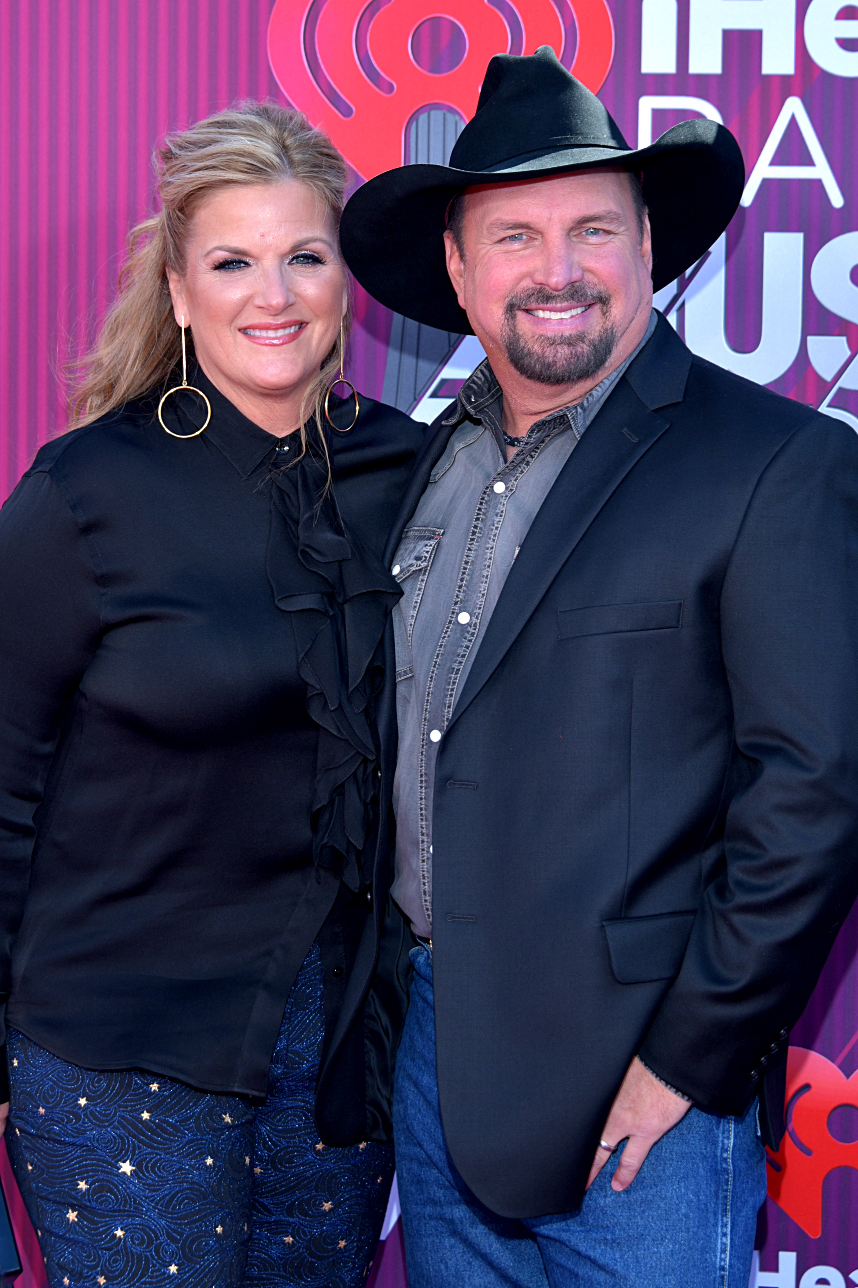 Garth Brooks and Trisha Yearwood at the 2019 iHeart Music Awards in Los Angeles, California - Photo by Glenn Francis of